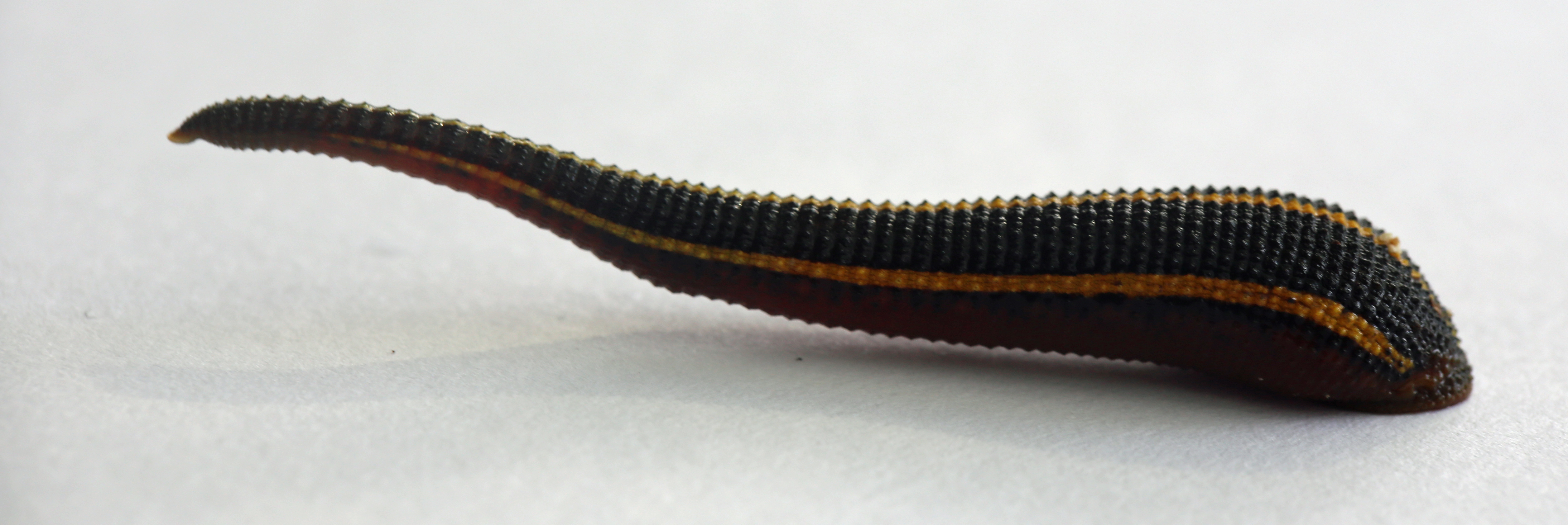 this guy arrived on a placemat on our deck after the recent rain